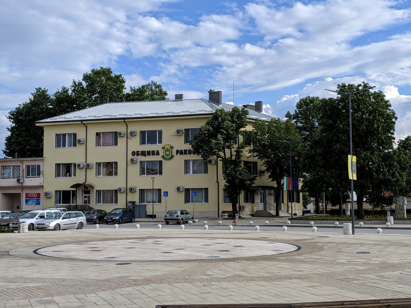 Bulgaria Square in Rakovski